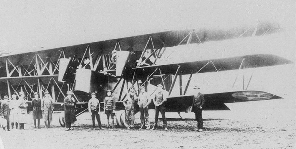 Attack aircraft (close air support) Boeing GA-1 used in the years 1921 to 1926